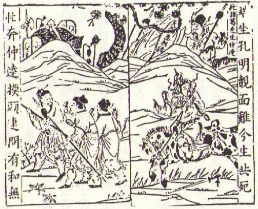 "A dead Zhuge scares away a living Zhongda" (死諸葛嚇走活仲達) Sima Yi is pictured at the bottom right, while Jiang Wei is pictured at the upper right.